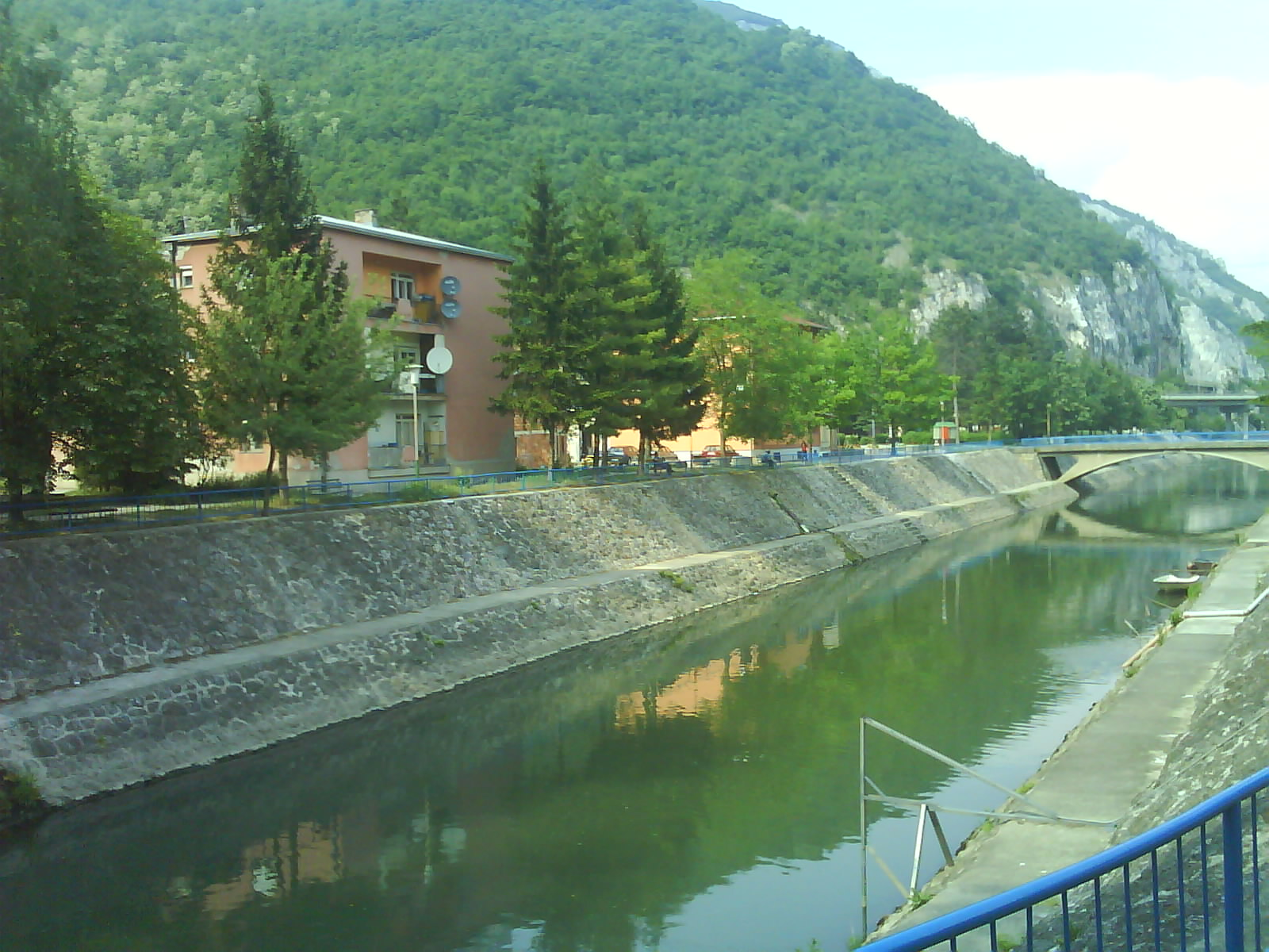 Ovčar Banja